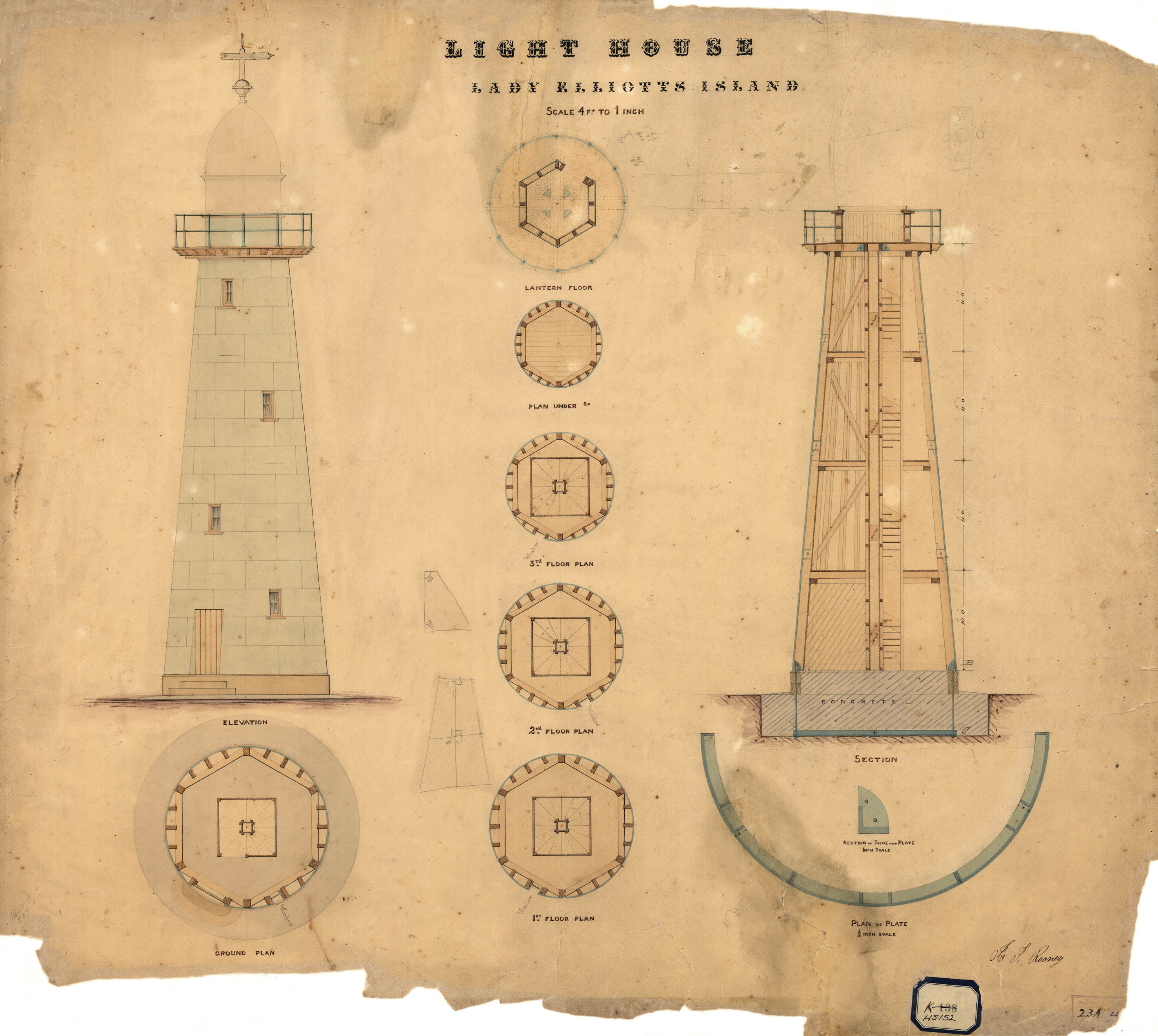 Lady Elliot Island Tower (Light house), 1874